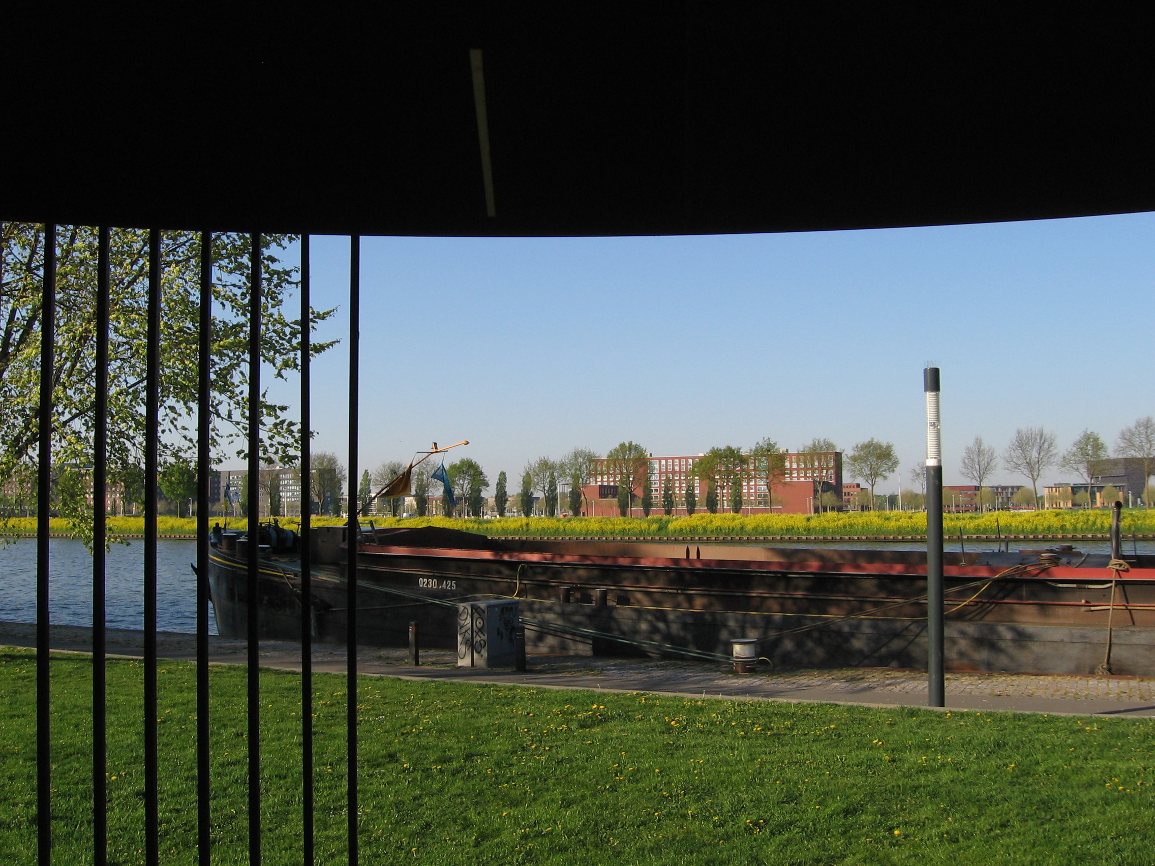 Martin Bril Pavilion, 2015, designed by Carve NL and Karel Martens, Kanaleneiland Utrecht